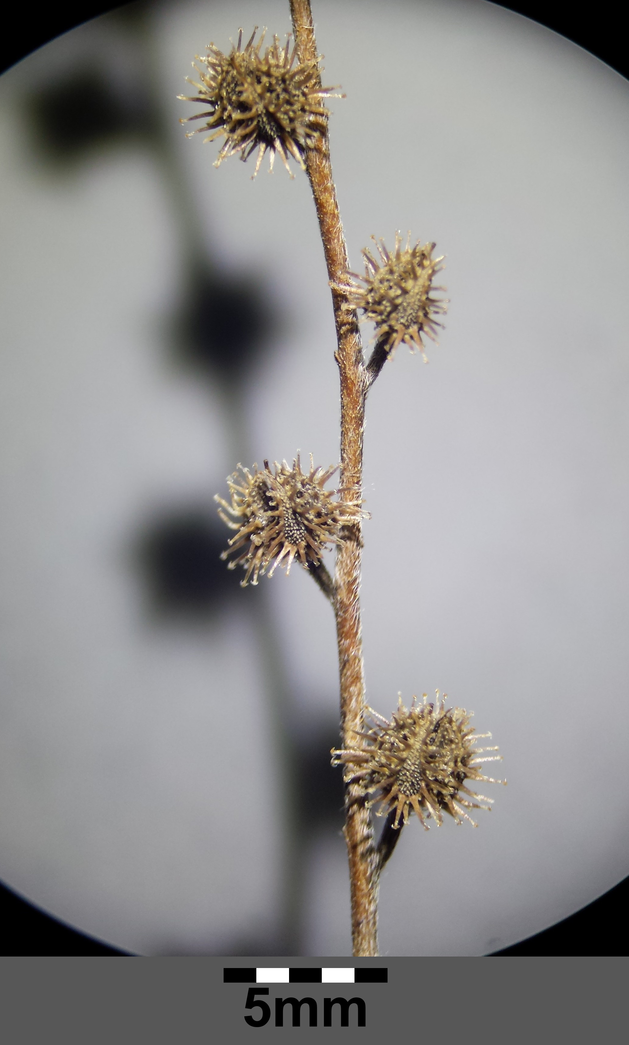 Infructescence Taxonym: Lappula squarrosa s. str. ss Fischer et al. EfÖLS 2008 ISBN 978-3-85474-187-9 Location: Leeberg Großmugl, district Korneuburg, Lower Austria - 265 m a.s.l. (leg.: 2015-08-02) Habitat: dry grassland